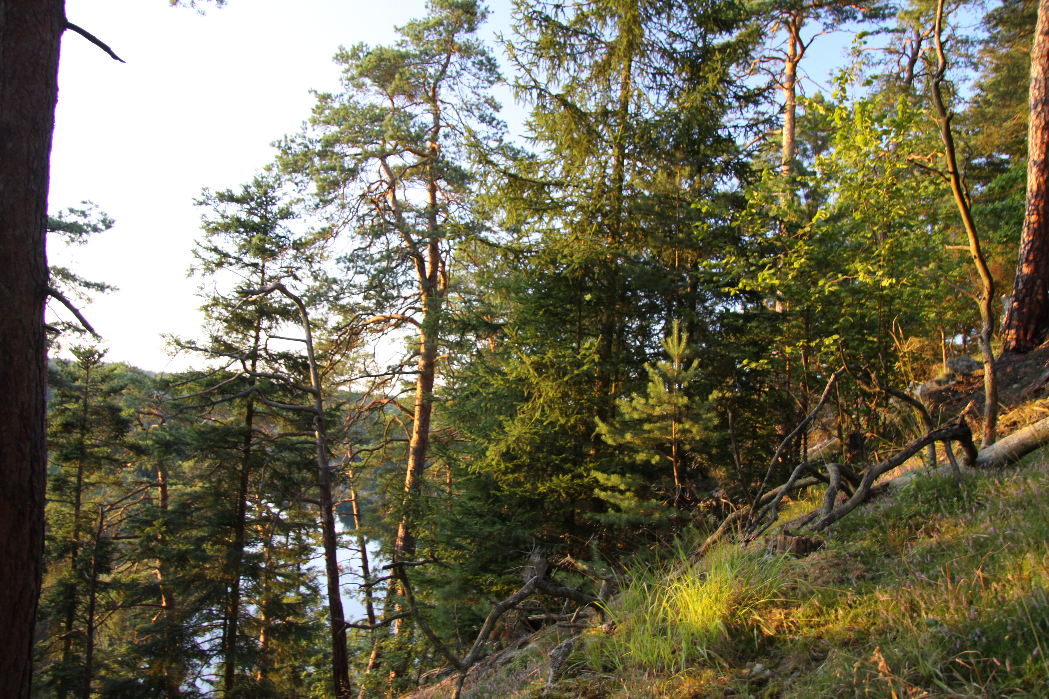 Natural reservation called "Krkavčina" near Oslov village on the bank of Otava River, Písek District, Czech republic. - Google Maps - Google Earth